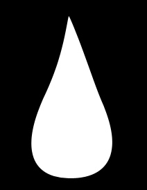 [synesthesia - shaped sensations] read about this on my blog